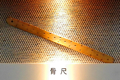 A bone ruler of Han dynasty, unearthed at Jiayuguan City, Gansu province, China.Its length is 23.8cm. This photo was taken at Jiayuguan Museum of the Great Wall.